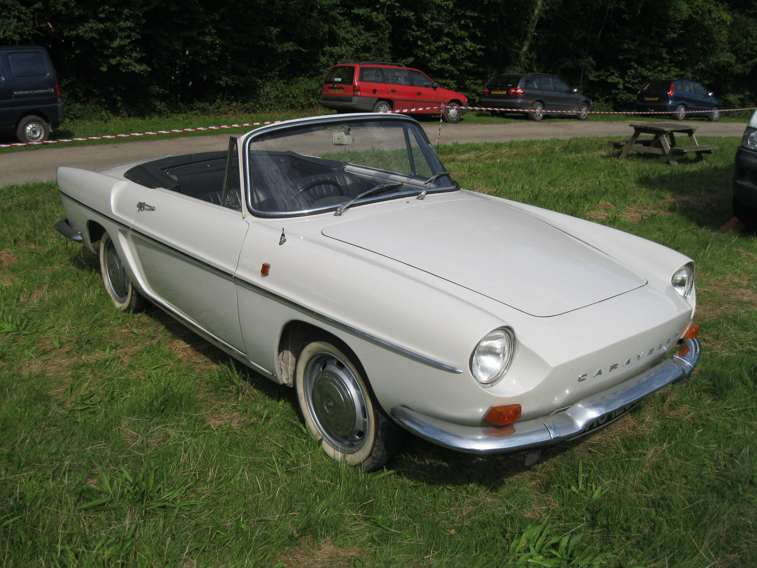 Lovely 1960s Caravelle spotted at the Bluebell Railway's Transport weekend at Horsted Keynes Station in August 2012.